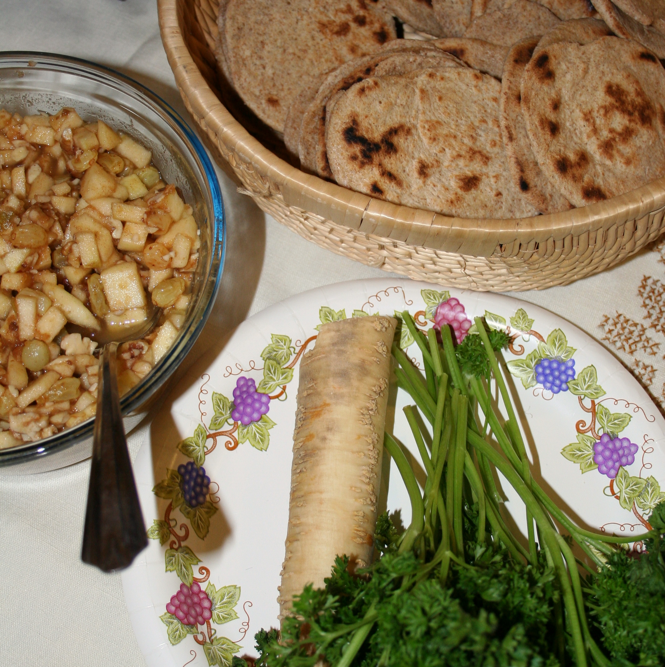 Some foods prepared for a Passover Seder: (clockwise from top) unleavened bread, parsley, horseradish, charoset